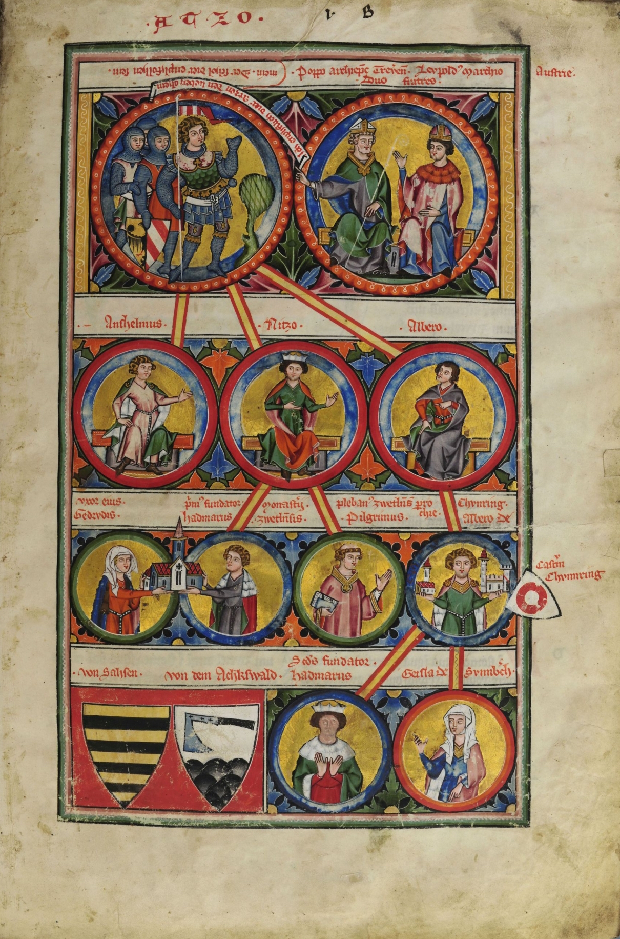 Liber Fundatorum Zwetlensis